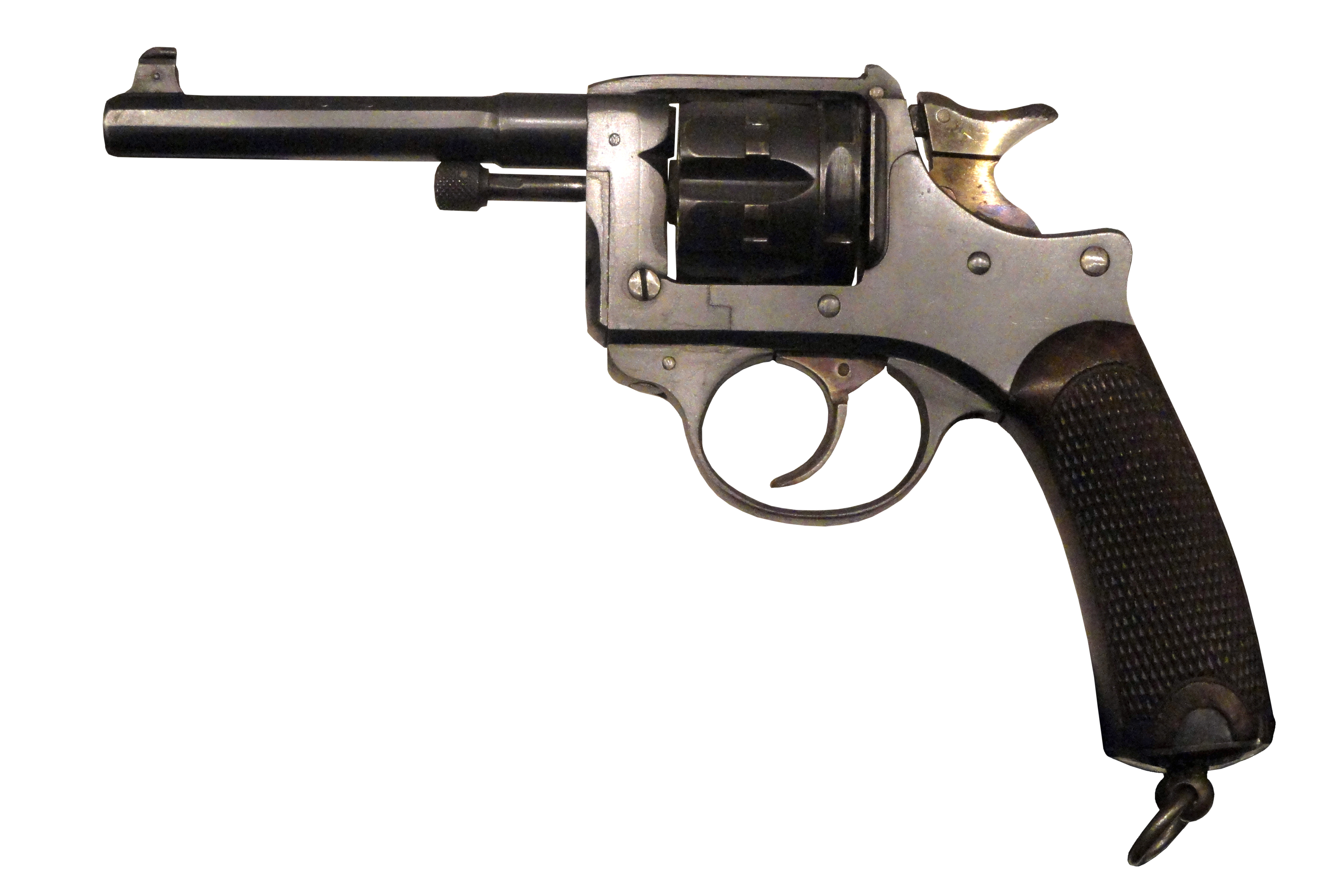 Handgun exhibited in the National World War I Museum at the Liberty Memorial, 100 W. 26th Street, Kansas City, Missouri, USA.